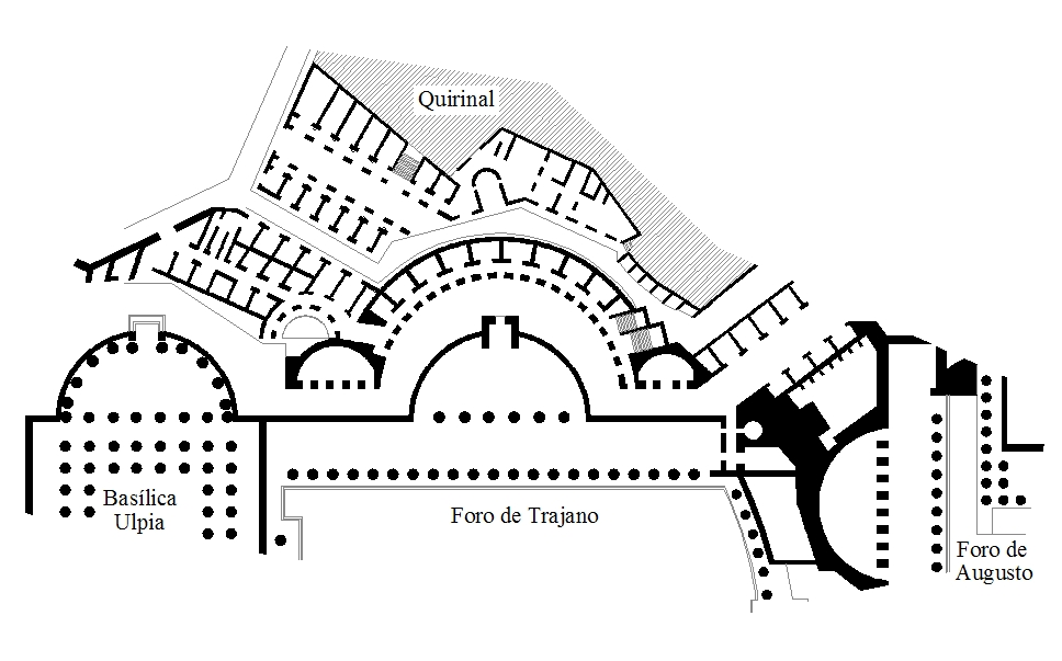 Plane of Trajan's Market (aproximate)